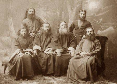 Portrait photograph of the five Karbelashvili brothers and their father Grigol.